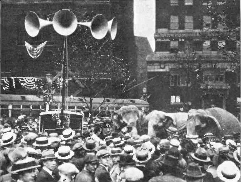 Crowd outside the US 1924 Republican National Convention in Cleveland Ohio listening to the speeches inside the hall by means of a public address system inside the sound truck and the horn loudspeakers on the pole. A loop antenna is visible on top of the truck, so the truck is probably playing radio coverage of the convention from a local radio station. PA systems had only been in use for about 6 years, since World War 1 when amplifying triode vacuum tubes were developed, and they were still somewhat of a novelty. Caption: "RESIDENTS OF CLEVELAND LISTEN IN ON THE REPUBLICAN CONVENTION - With a company of elephants to sound a genuine Republican keynote, Cleveland crowds found it easy to get into the spirit of the convention that nominated Coolidge and Dawes by means of this "public address system" that connected with the presidential convention hall."